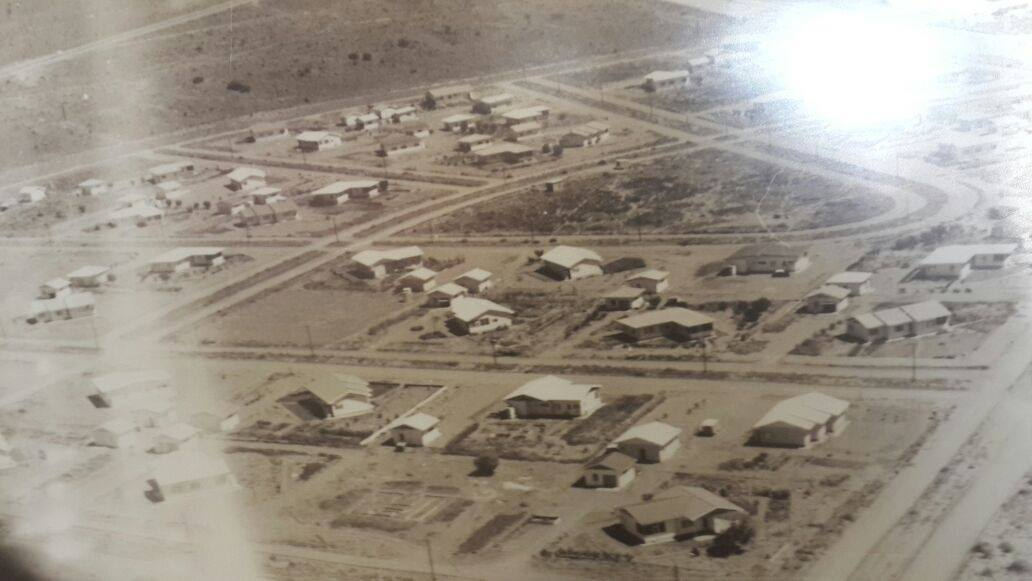 Orania in the 1960s